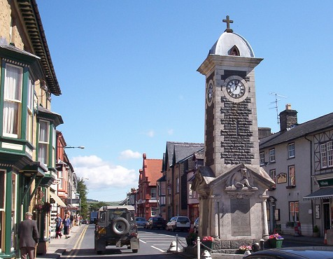 Picture of town clock, attributable to East Grove B&B